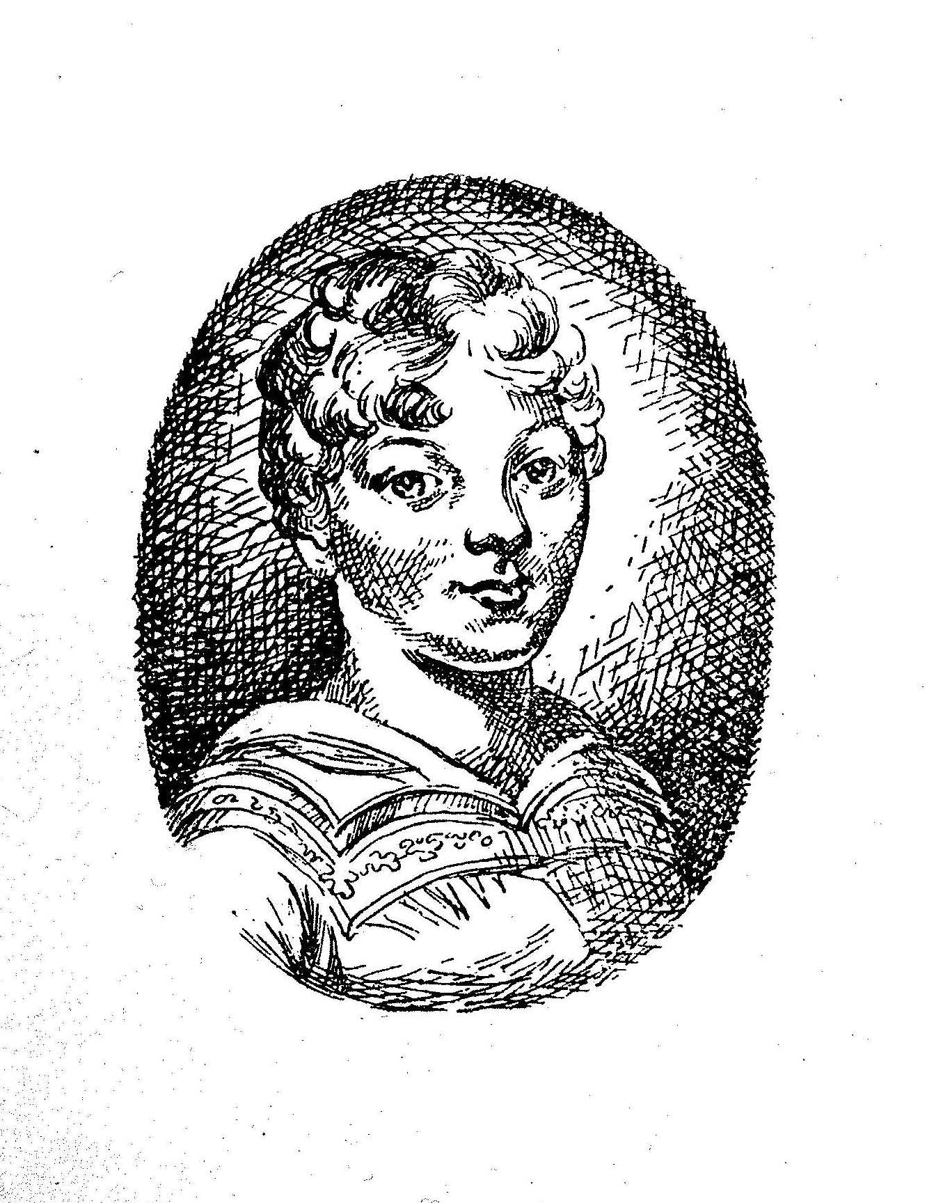 Mariamné Johnes, portrait by Stothard